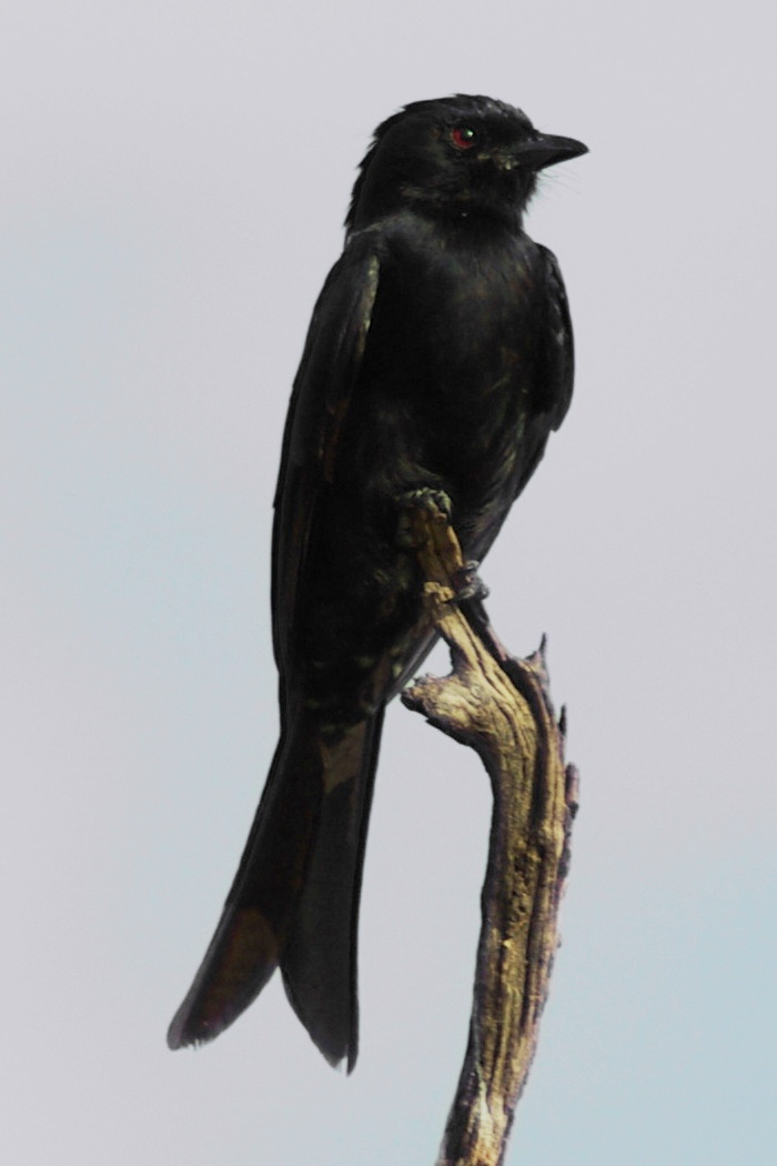 Fork-tailed drongo or Common drongo in Masai Mara N. P., Kenya. The timestamp is 10 hours too early.